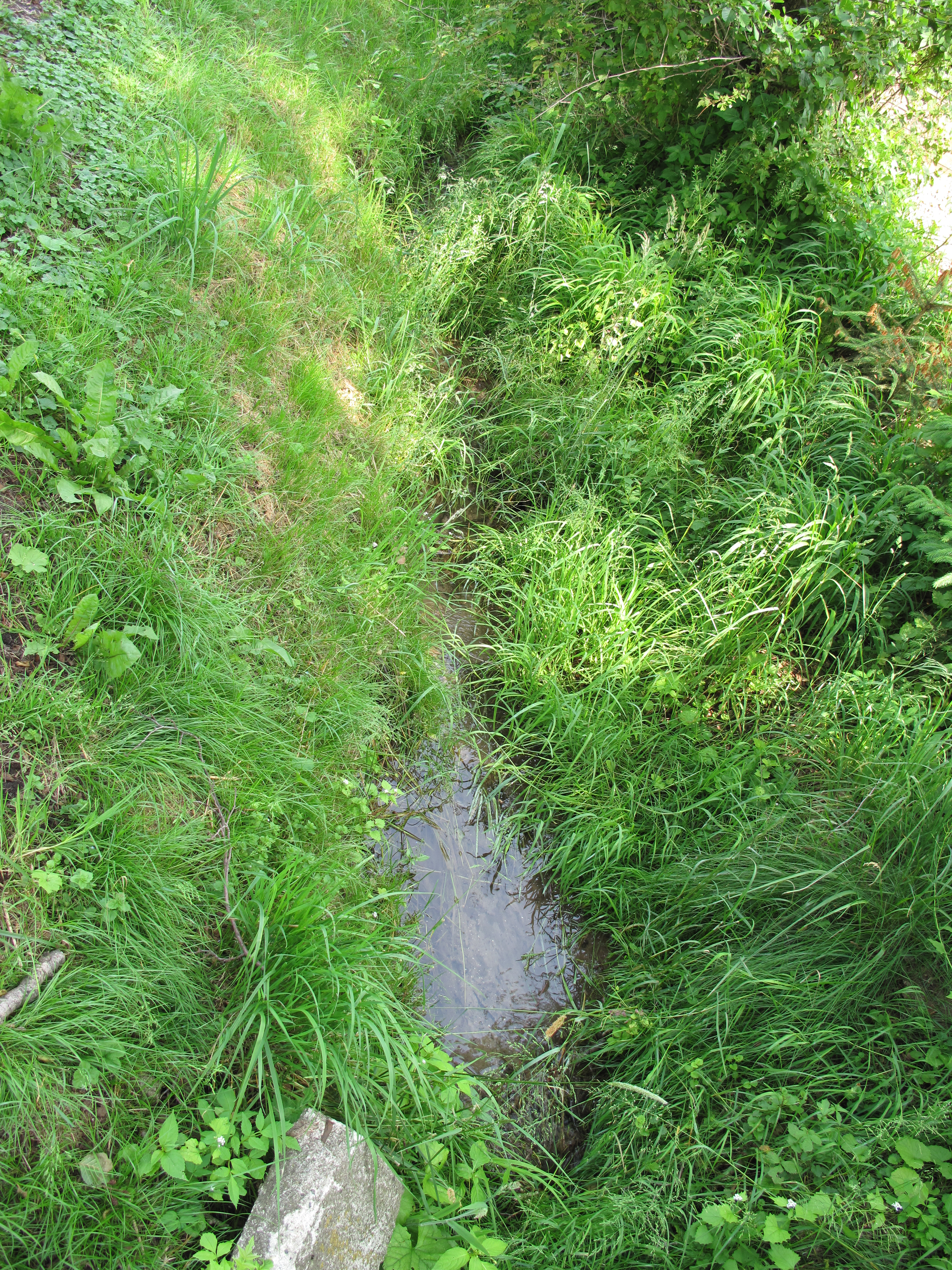 Radvánovice Stream in Roudný village, Semily District, Czech Republic.